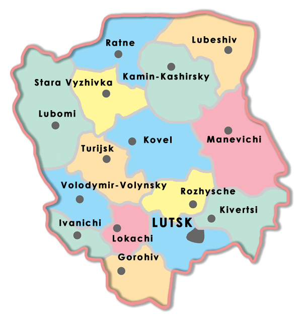 detailed map of Volyn region 600px X 646px, by User:Alex756